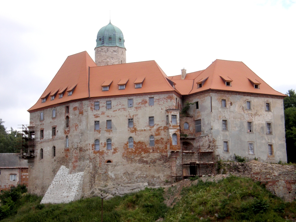 Libá Chateau (reconstruction 2008), Cheb District, Czech Republic